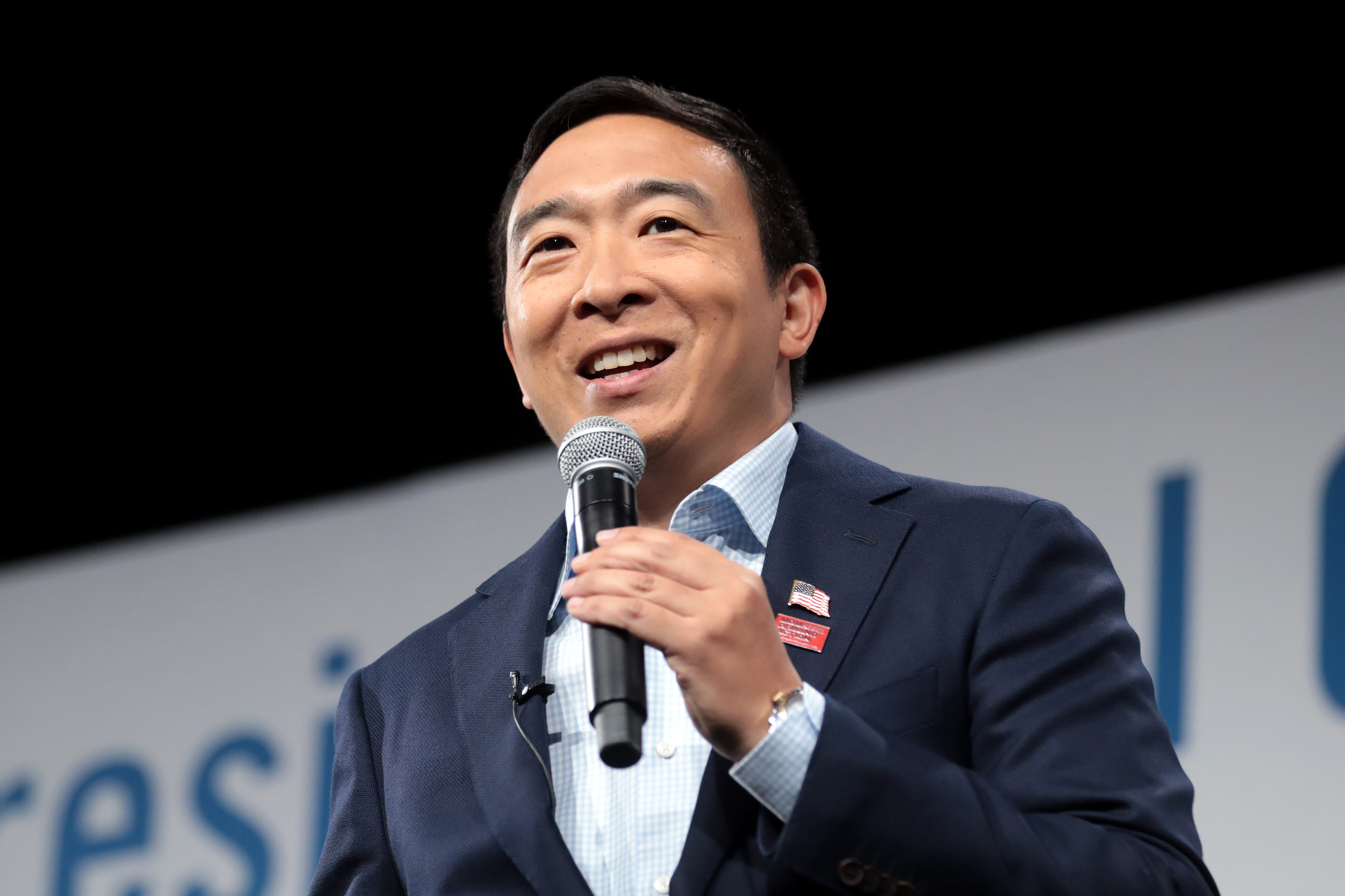 Andrew Yang speaking with attendees at the Presidential Gun Sense Forum hosted by Everytown for Gun Safety and Moms Demand Action at the Iowa Events Center in Des Moines, Iowa.